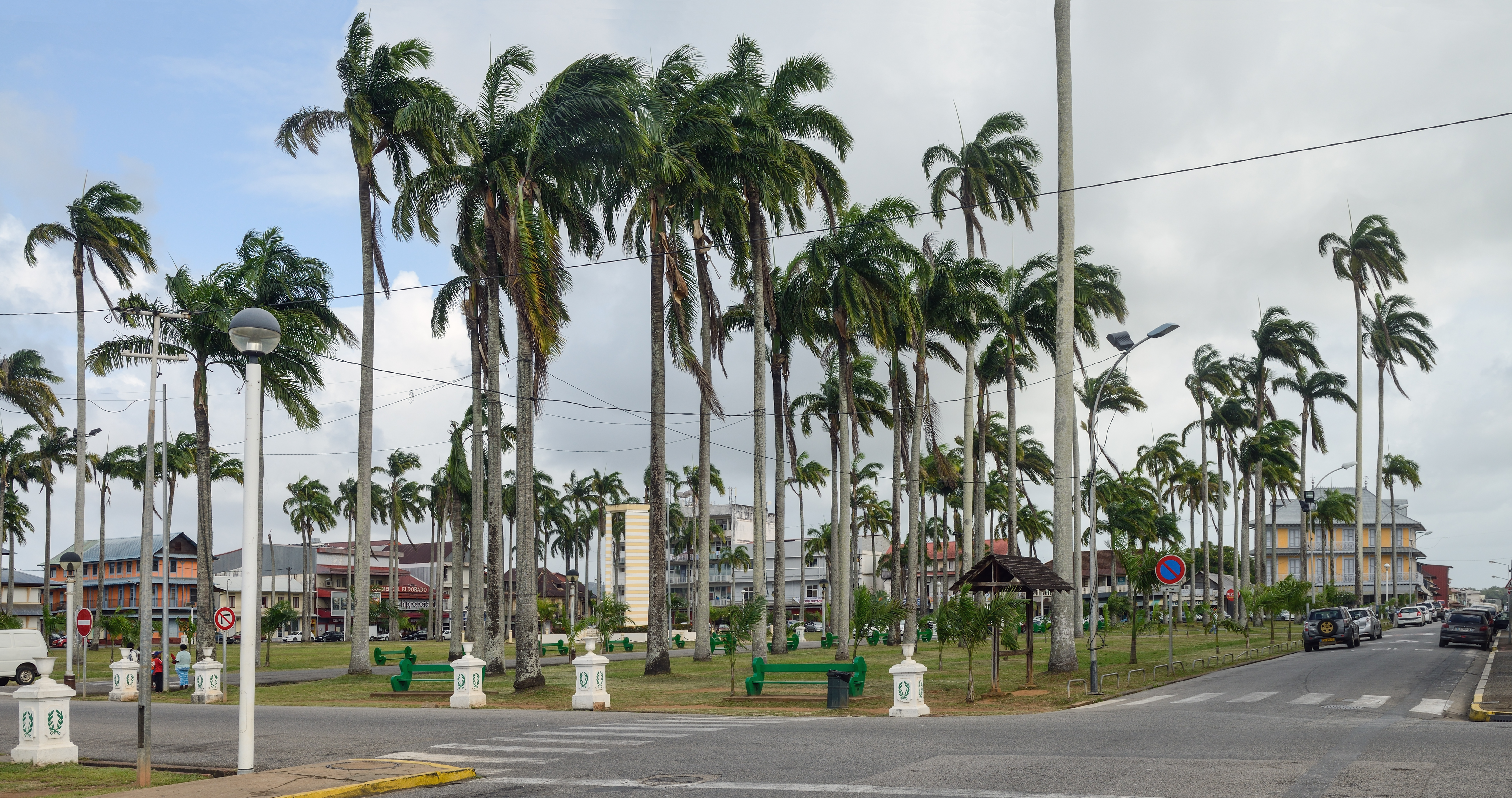 Place des palmistes in Cayenne, French Guiana.